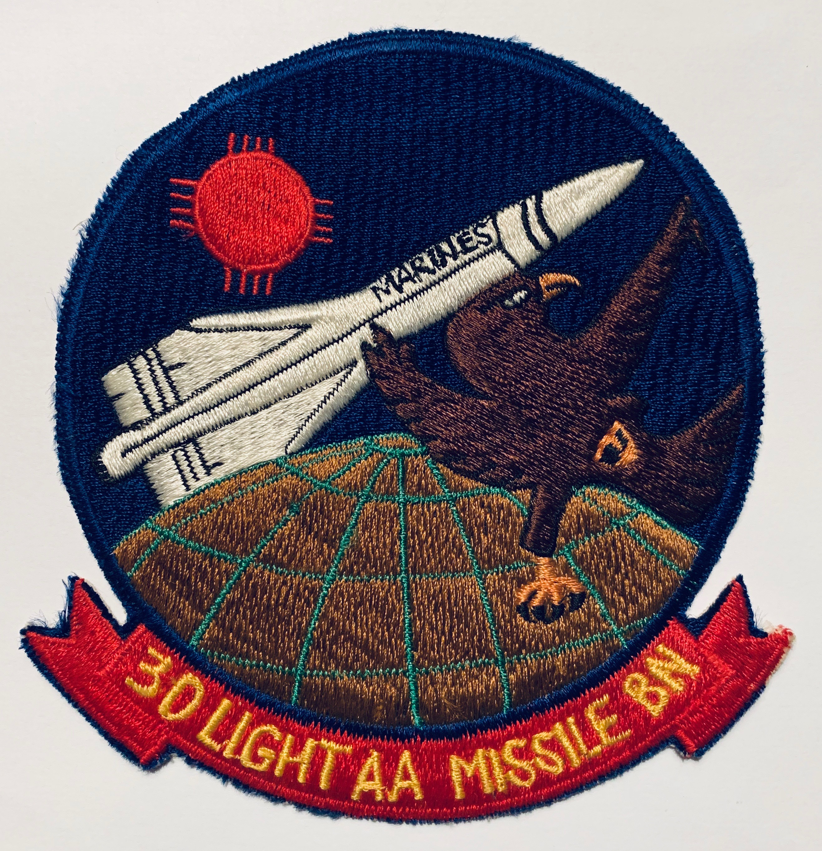 Photo taken of a 3d Light Antiaircraft Missile Battalion patch from the 1960s.